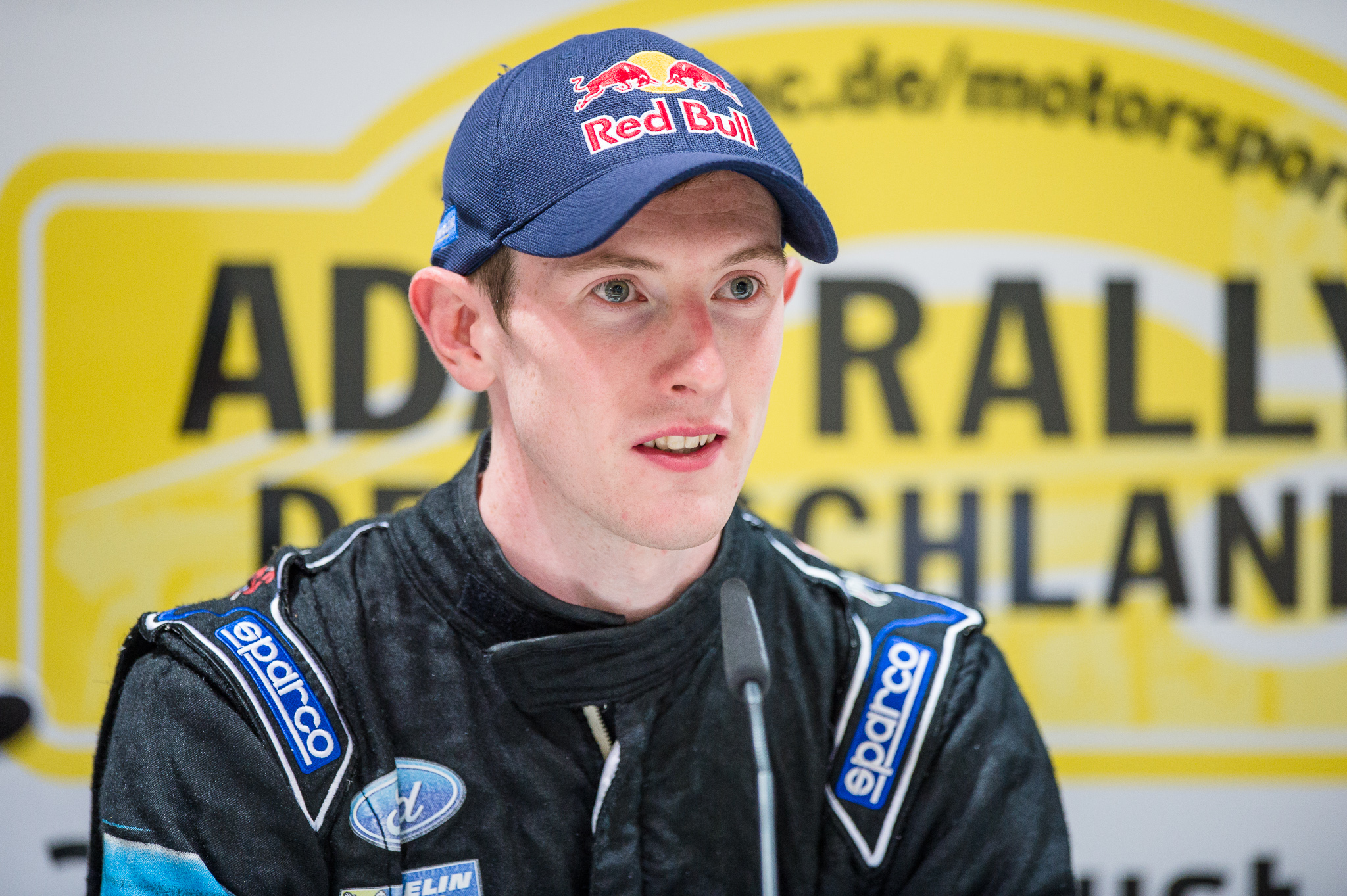 ADAC Rallye Deutschland 2014,Elfyn Evans,FIA,FIA World Rally Championship,M-Sport WRT,M-Sport World Rally Team,Motorsport,Pressekonferenz,Rally,Rallye,WRC